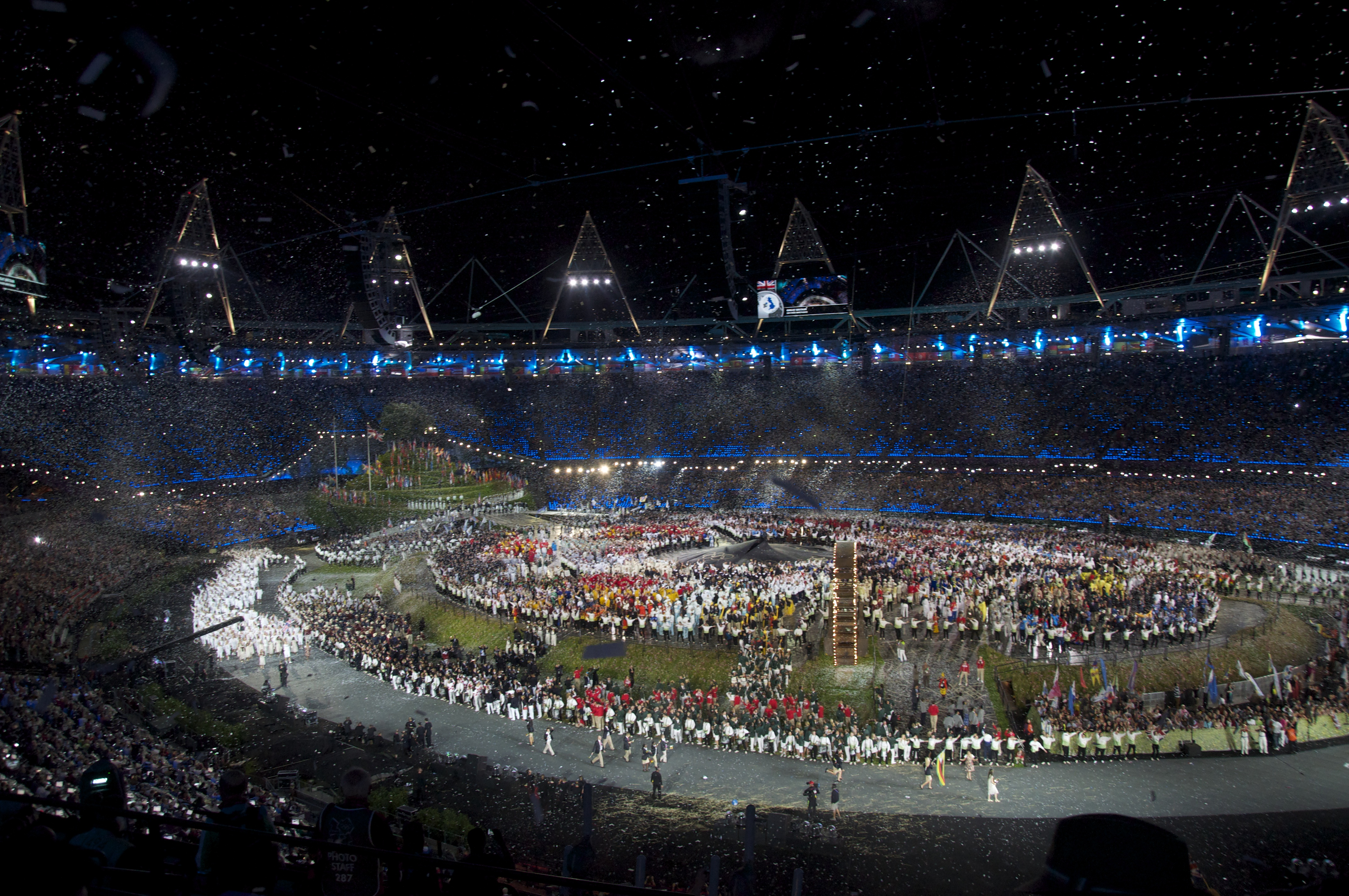 2012 Summer Olympics opening ceremony